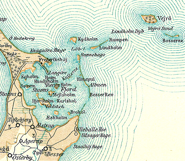 Map of Stavns Fjord on Samsoe in Denmark